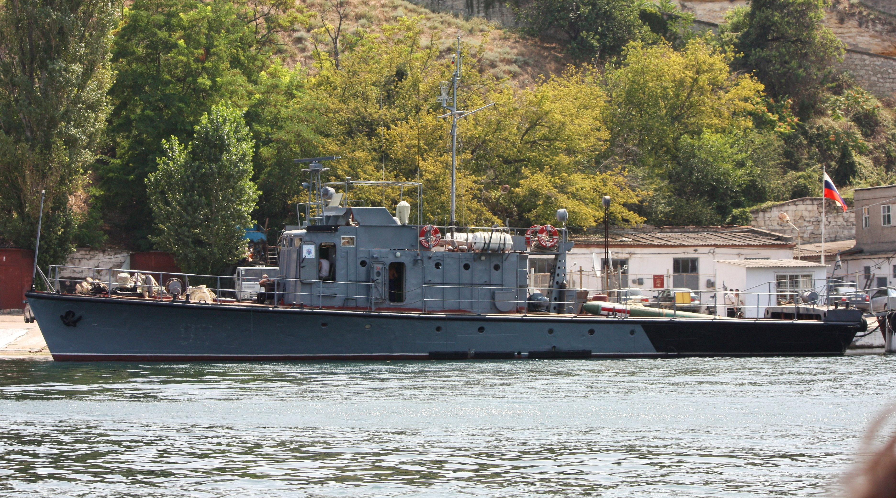 The boat TL-997 (Russian ТЛ-997) of the Russian Black Sea Fleet in the Port of Sevastopol (Russian Севастополь) in the Ukrain. The Russian class name of the boot is “Project 368T”. A training torpedo (with red and white stripes) is loaded in the back. The canon in the front is missing. The number on the side is washed out.